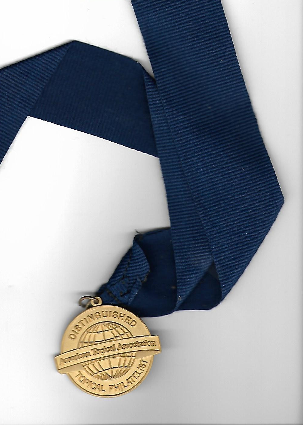 This is the medal awarded at the 2008 DTP ceremony